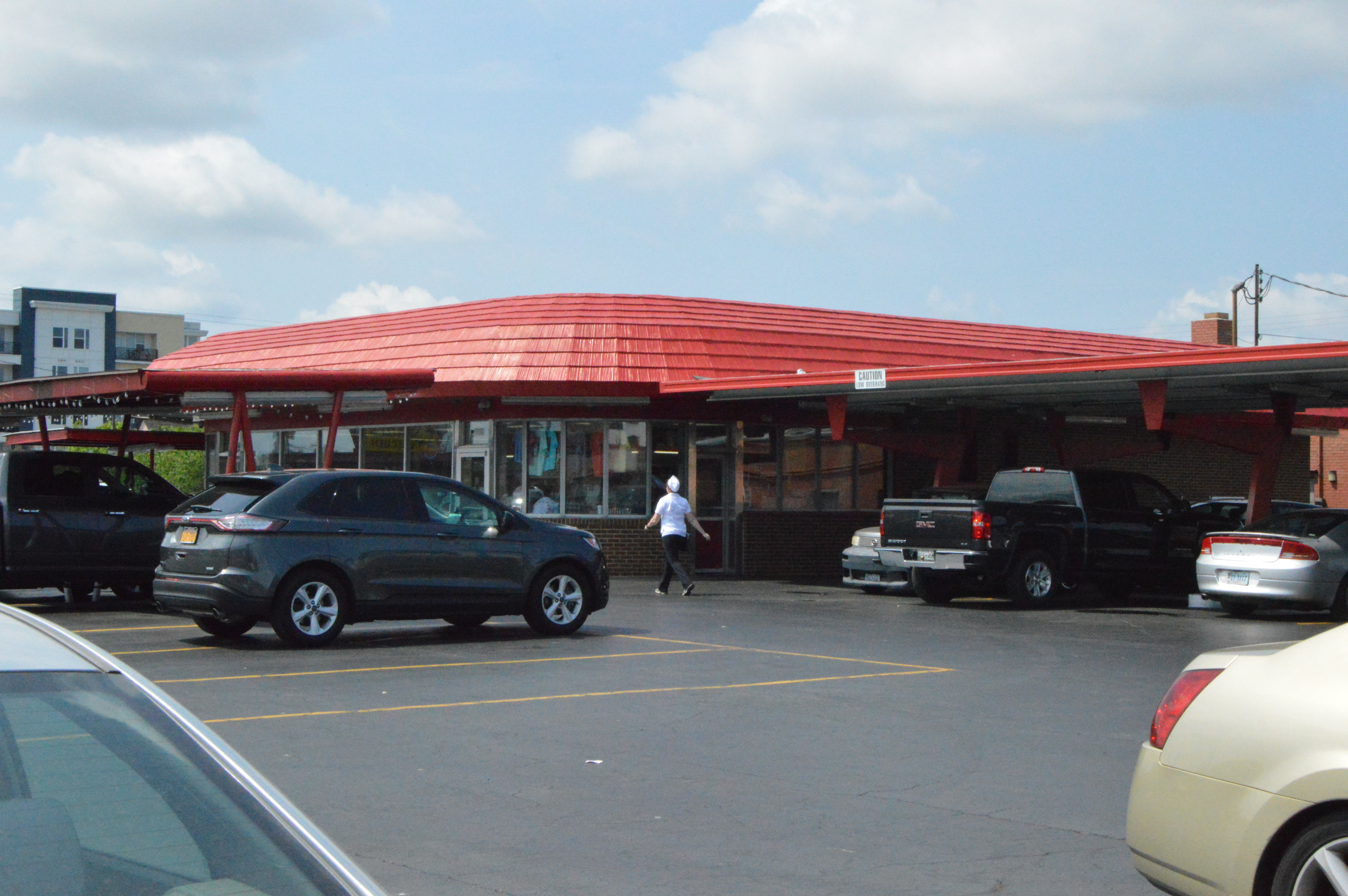 Northeastern view of Doumar's Barbecue, a 1949 drive-in restaurant located at 1919 Monticello Avenue in Norfolk, Virginia, United States. It is part of the Williamston-Woodland Historic District, a historic district that is listed on the National Register of Historic Places.